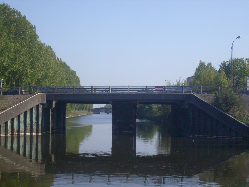 "Red Bridge" Dunkirk